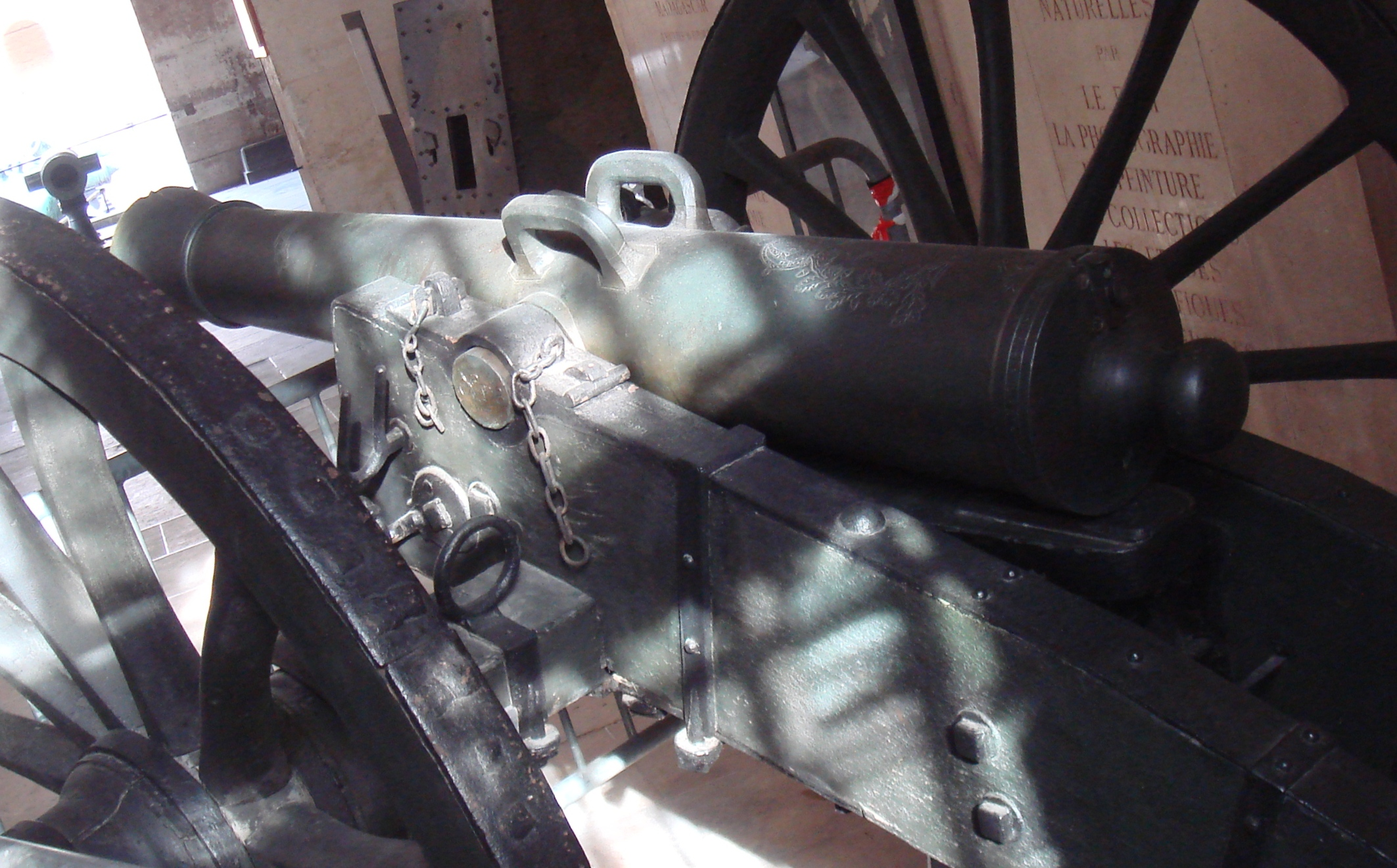 Canon de 6 systeme An XI detail. Photographed by PHGCOM at Les Invalides